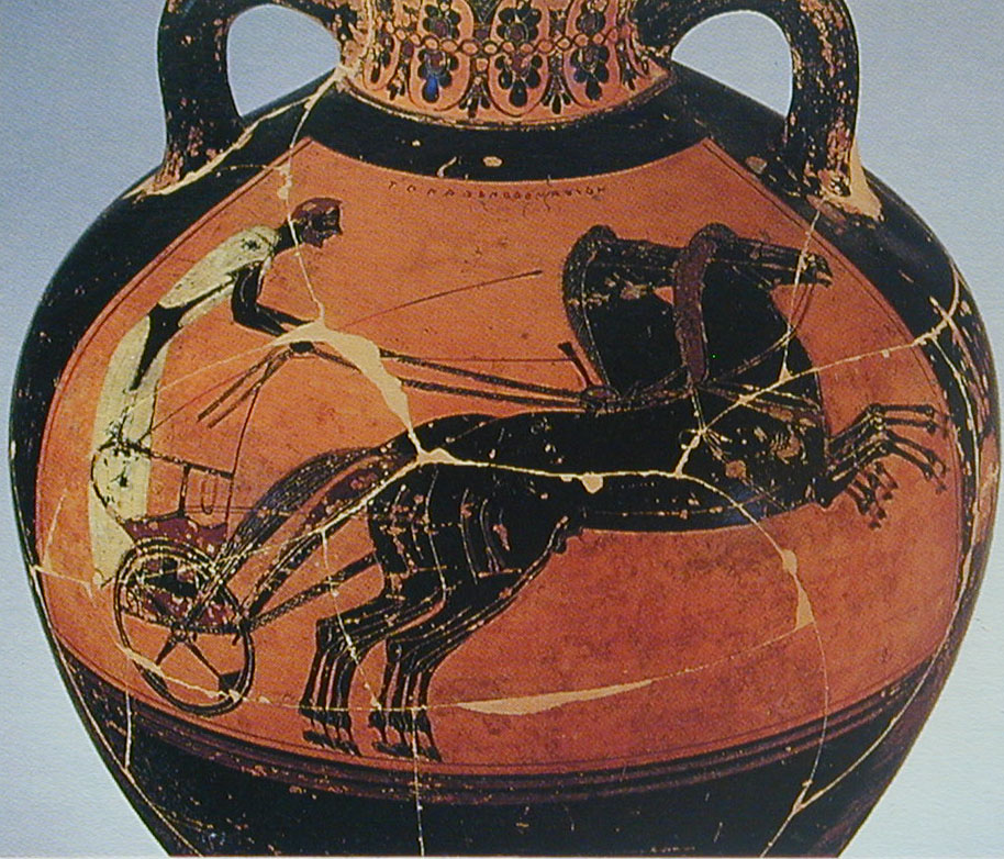 Side B: Chariot. Decoration on side A: Athena with youth (victor) with fillet; as shield device a star or a rosette.